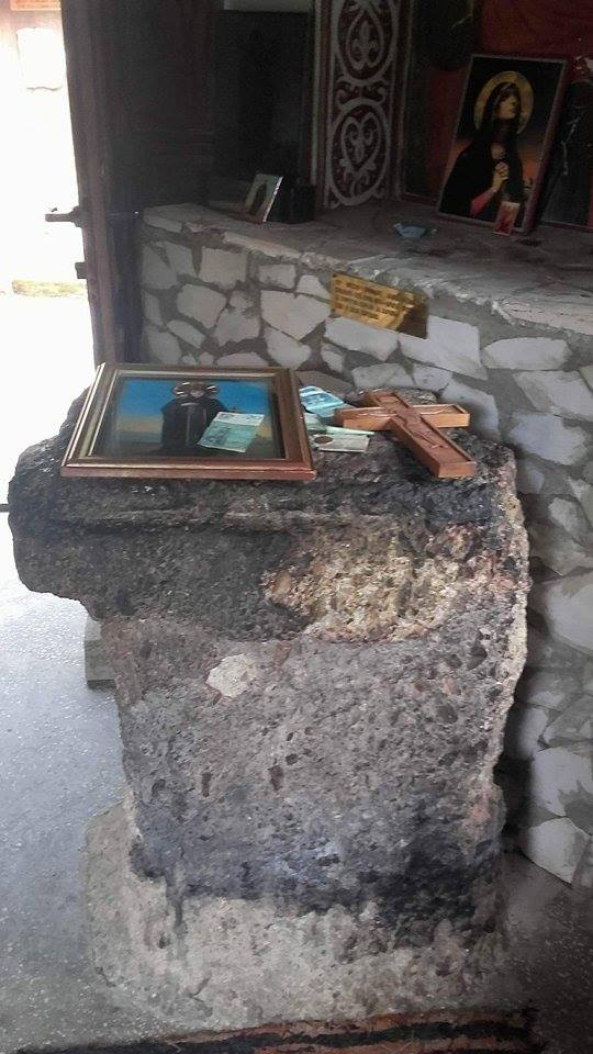 Sveti kamen u manastiru Svete Petke u Stublu